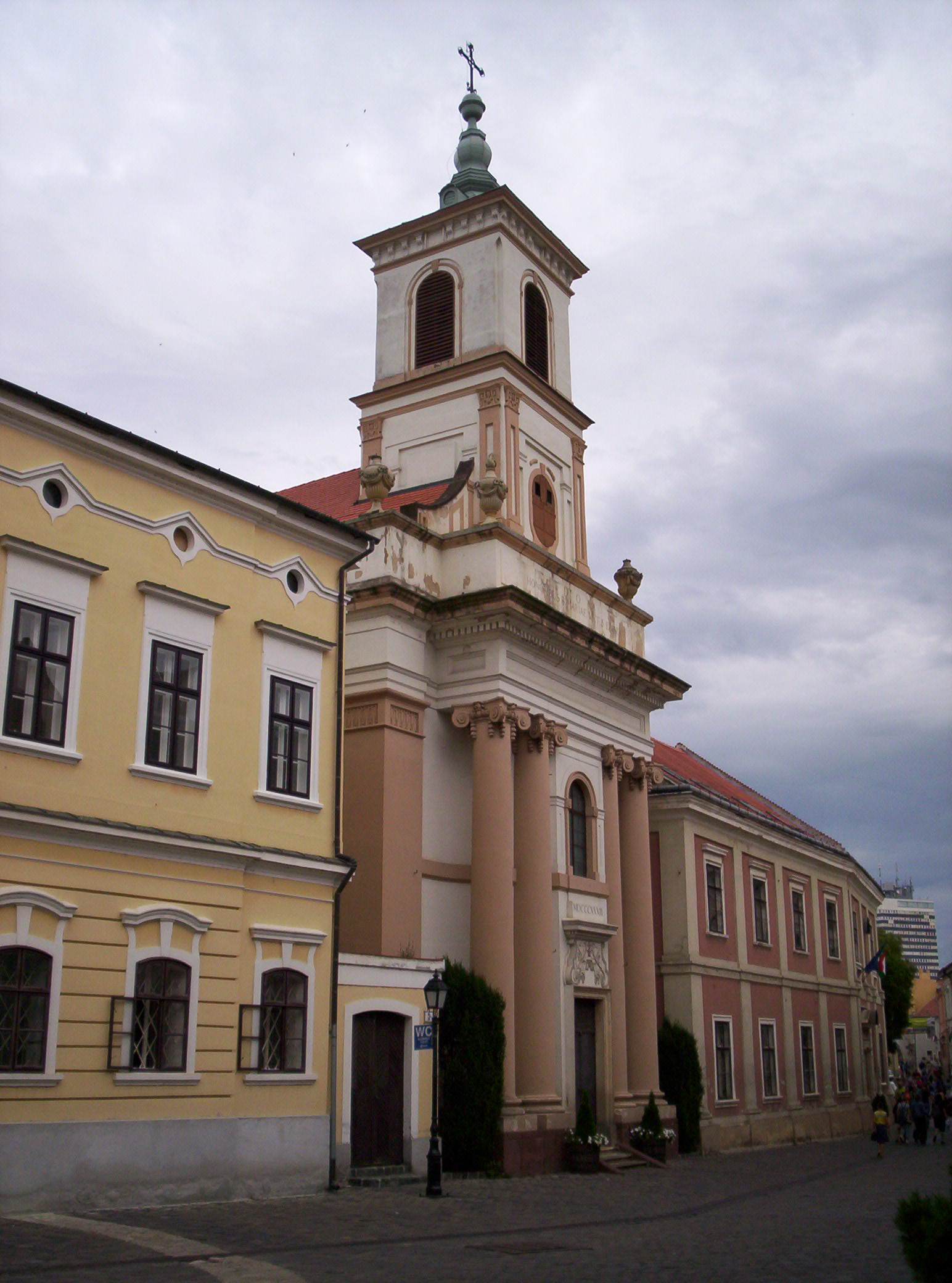 The Piarist Church in Veszprém